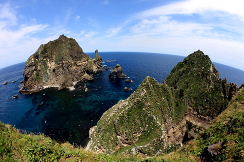 The Liancourt Rocks, known as Dokdo (or Tokto, 독도/獨島, literally "solitary island") in Korean, as Takeshima (竹島, Takeshima, literally "bamboo island") in Japanese.